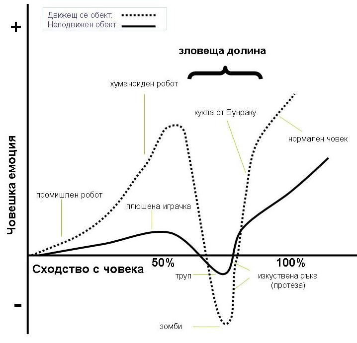 Uncanny valley